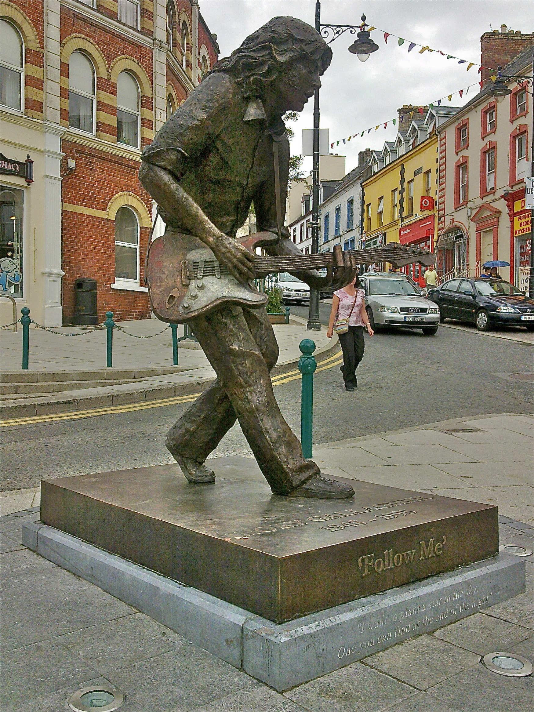 Statue of Rory Gallagher, commemorating his life and work as a rock and blues guitarist/singer. Unveiled at the 2010 Rory Gallagher Festival in Ballyshannon, County Donegal, the town where he was born.